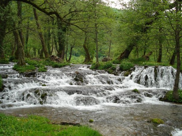 place Janjski Otoci on the river Janj near the town of Sipovo